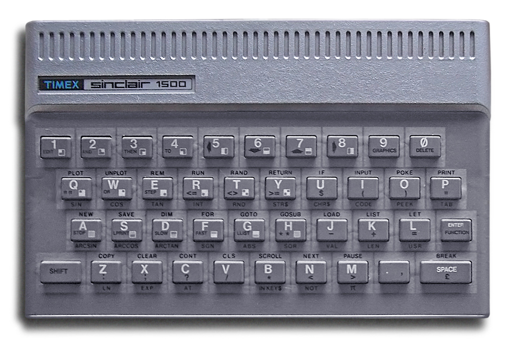 The Timex Sinclair 1500, a rare variant of the Sinclair ZX81 and Timex Sinclair 1000 computers. Basically it's a Sinclair ZX81, but with 16KB onboard, a ZX Spectrum-style keyboard and case and NTSC TV output.